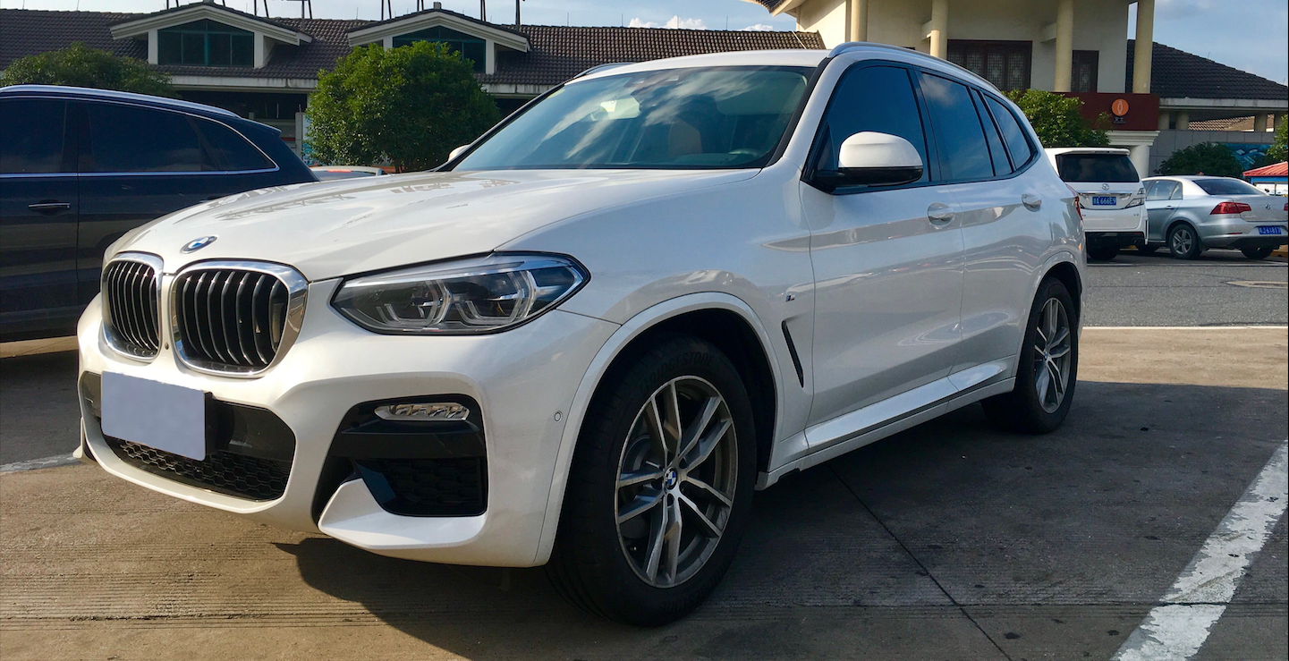 BMW X3 30i G01 M-Sport